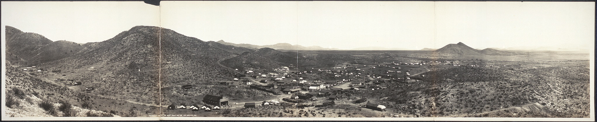 1909 panorama of Courtland, Arizona